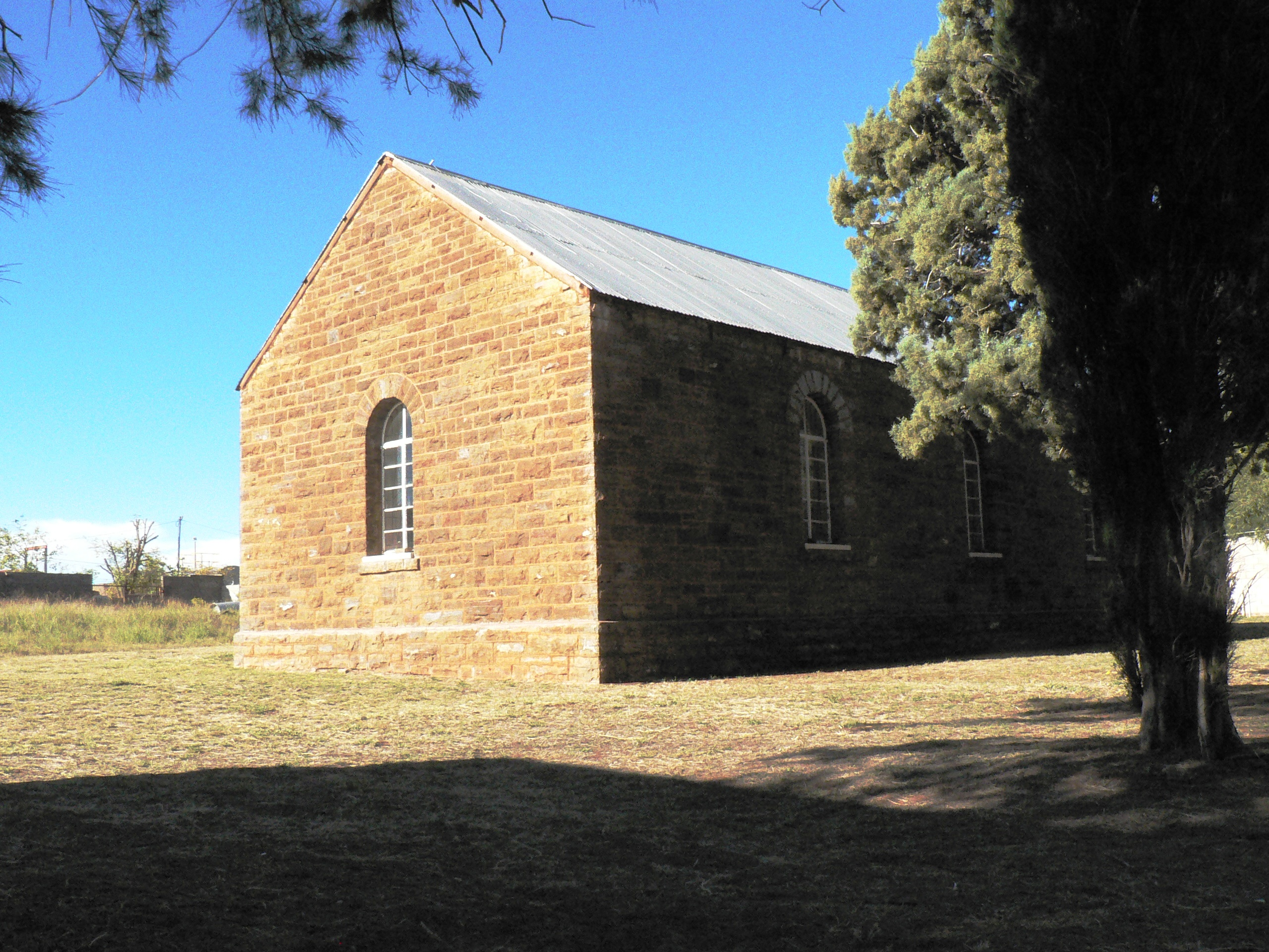 Now church hall This media shows a South African Protected Site with SAHRA file reference 9/2/074/0005.